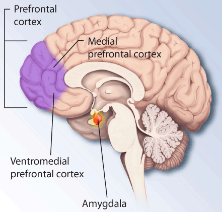 Brain structures involved in dealing with fear and stress.